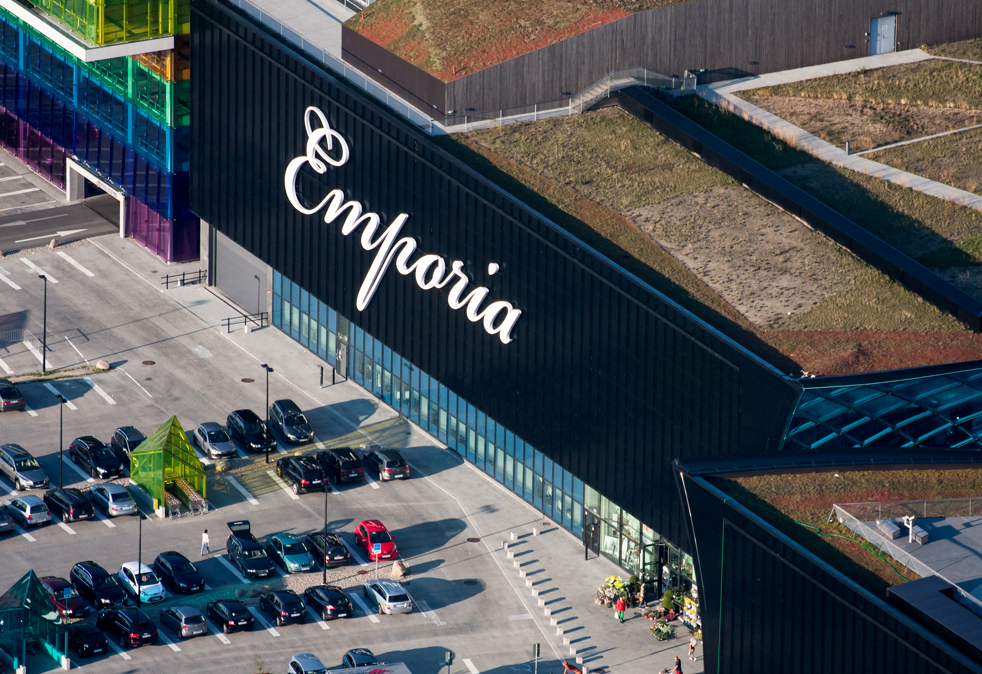 Shopping mall Emporia in Malmö, Sweden